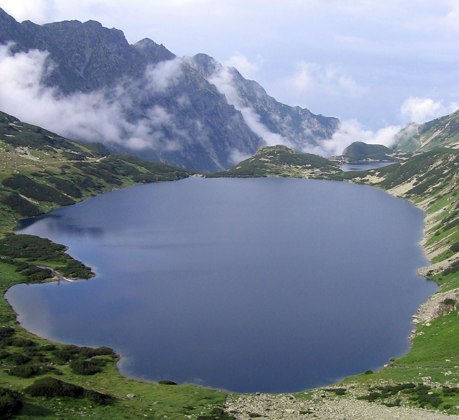 Valley of Five Polish Ponds - Greater and Front Polish Pond